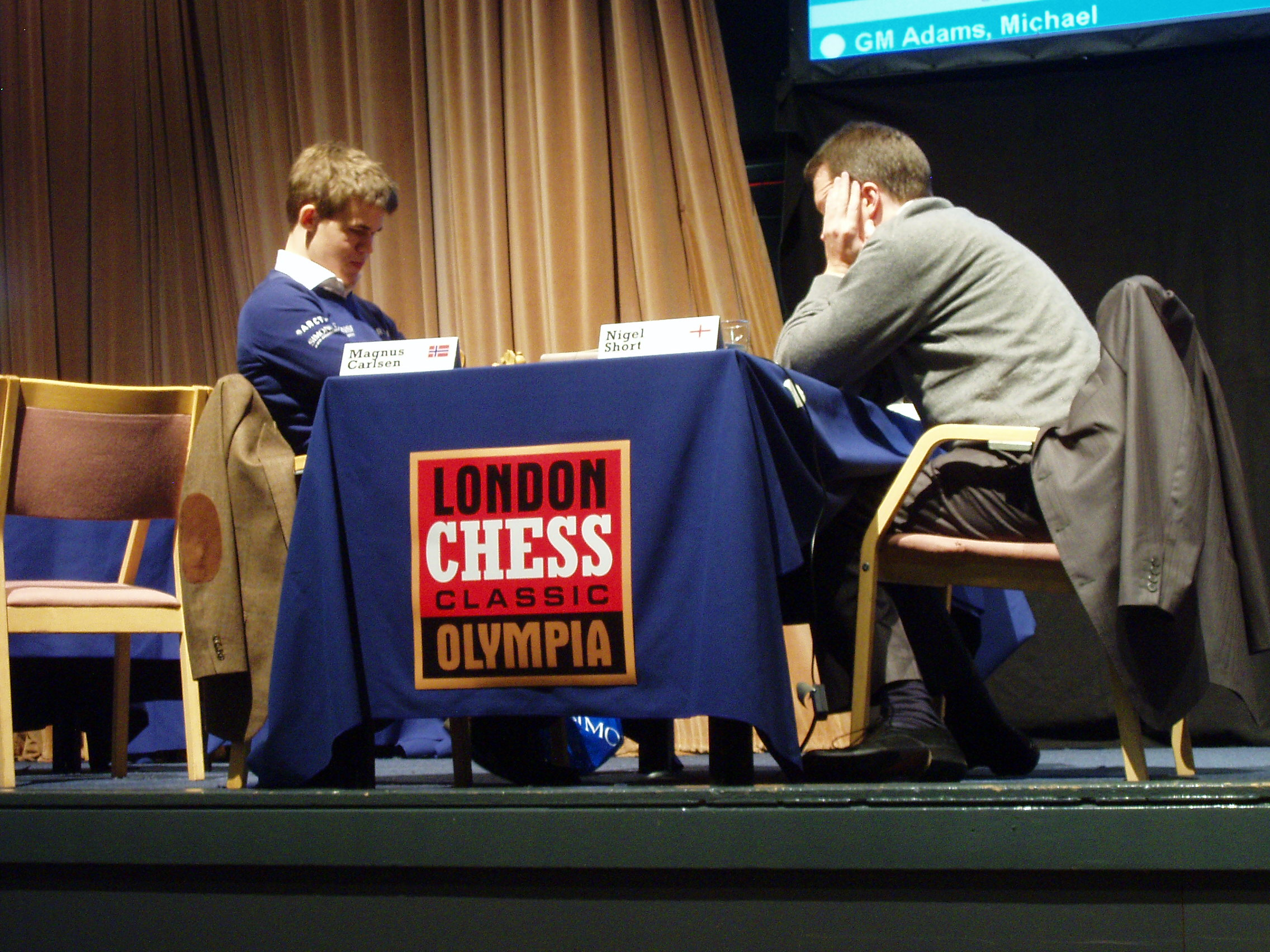 Magnus Carlsen playing Nigel Short in round 7 (the last round) of the London Chess Classic on 15/12/2009, at the Olympia Conference Centre, London, UK. The game was drawn, which meant that Carlsen won the tournament and became world number one in the following rating list (January 2010).